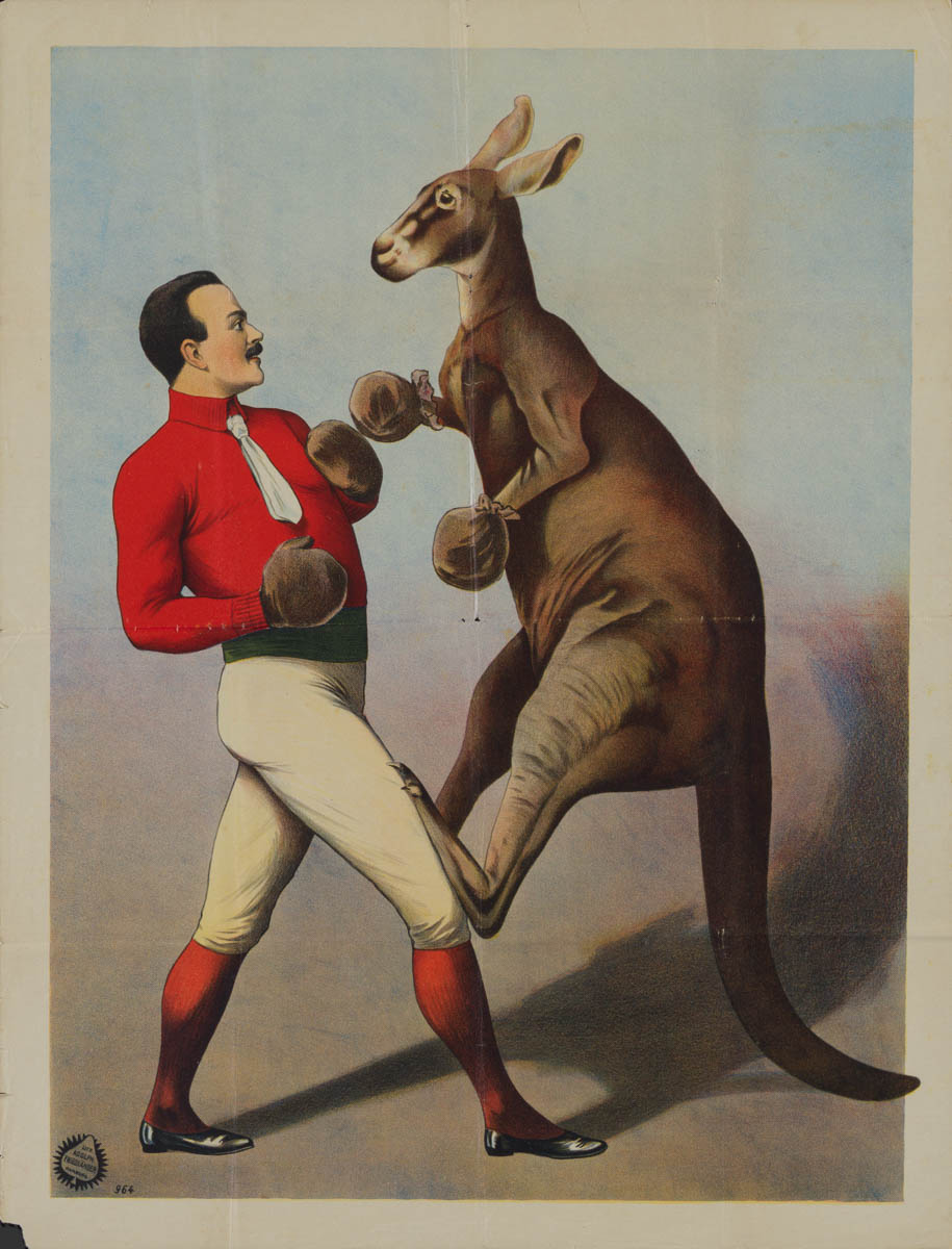 1890s Kangaroo Boxing sideshow poster (#964) printed in Hamburg, Germany by Adolph Friedländer (1851-1904).